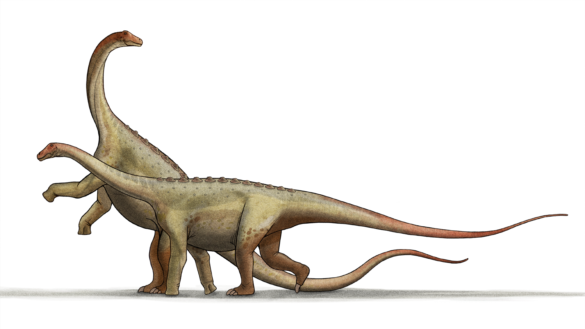 Saltasaurus (which means "lizard from Salta") was a sauropod dinosaur of the Late Cretaceous Period. Relatively small among sauropods, though still massive by human standards, it was characterized by a diplodocid-like head